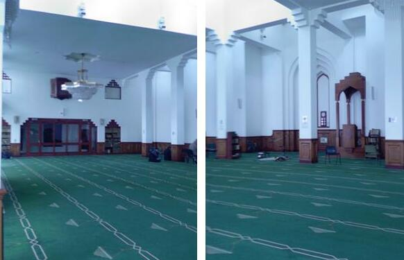 Interior of Edinburgh Central Mosque, Edinburgh, Scotland